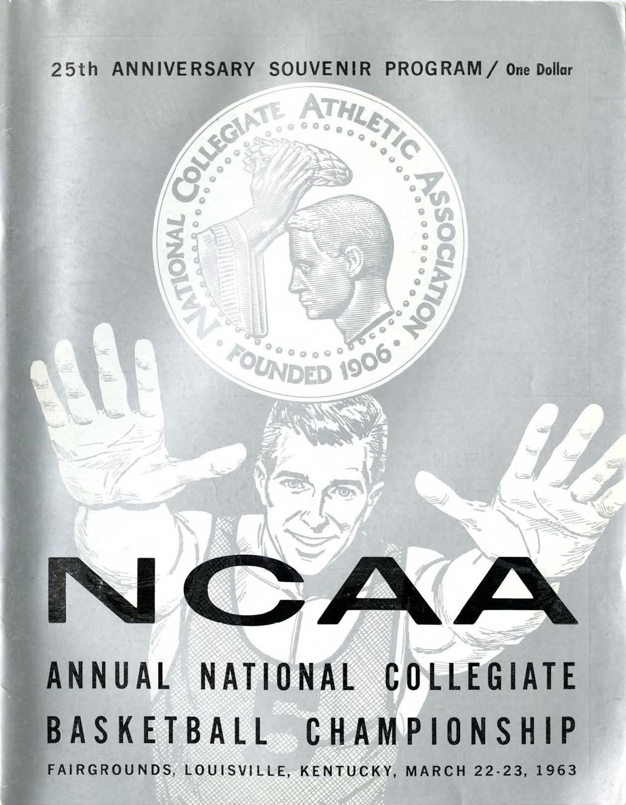 A page from the 1963 NCAA Annual National Collegiate Basketball Championship program